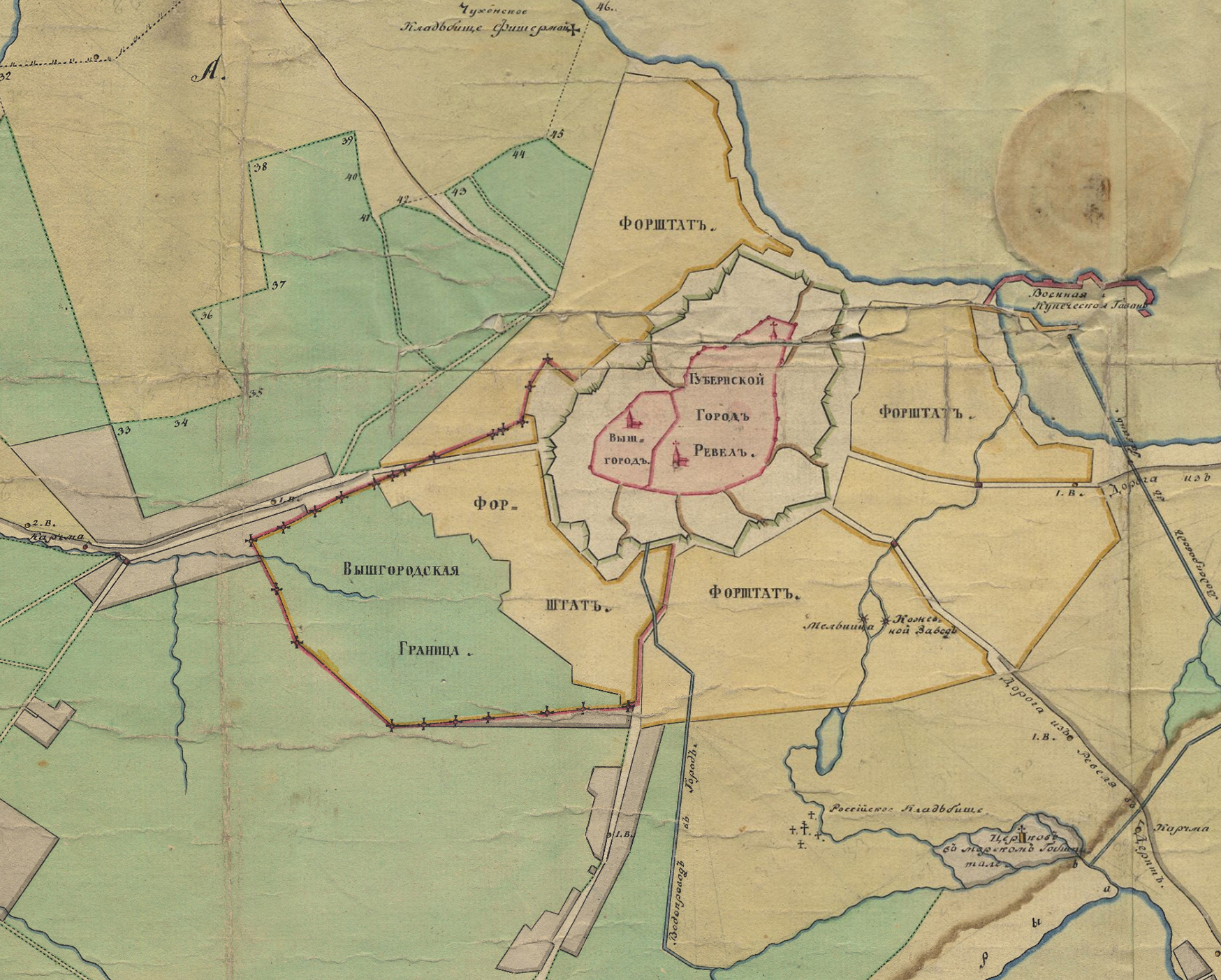 Extract from a 1810 map of Tallinn, showing the borders of Toompea and the rest of town. Toompea (Вышгородъ) on the left, Tallinn (Lower Town - Губернской Городъ Ревелъ) on the right. Border of the territory of Toompea is shown with a red line (Вышгородцкая Граница). Форштатъ: Vorstadt, settlements outside the city walls.